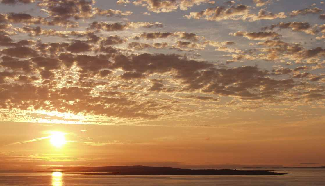 Sunset over the Aran Islands, Galway, from Doolin, Clare Ireland. Danny Burke